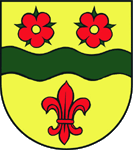 Coat of arms of Grüntal in Freudenstadt